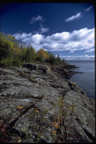 Isle Royale National Park shoreline